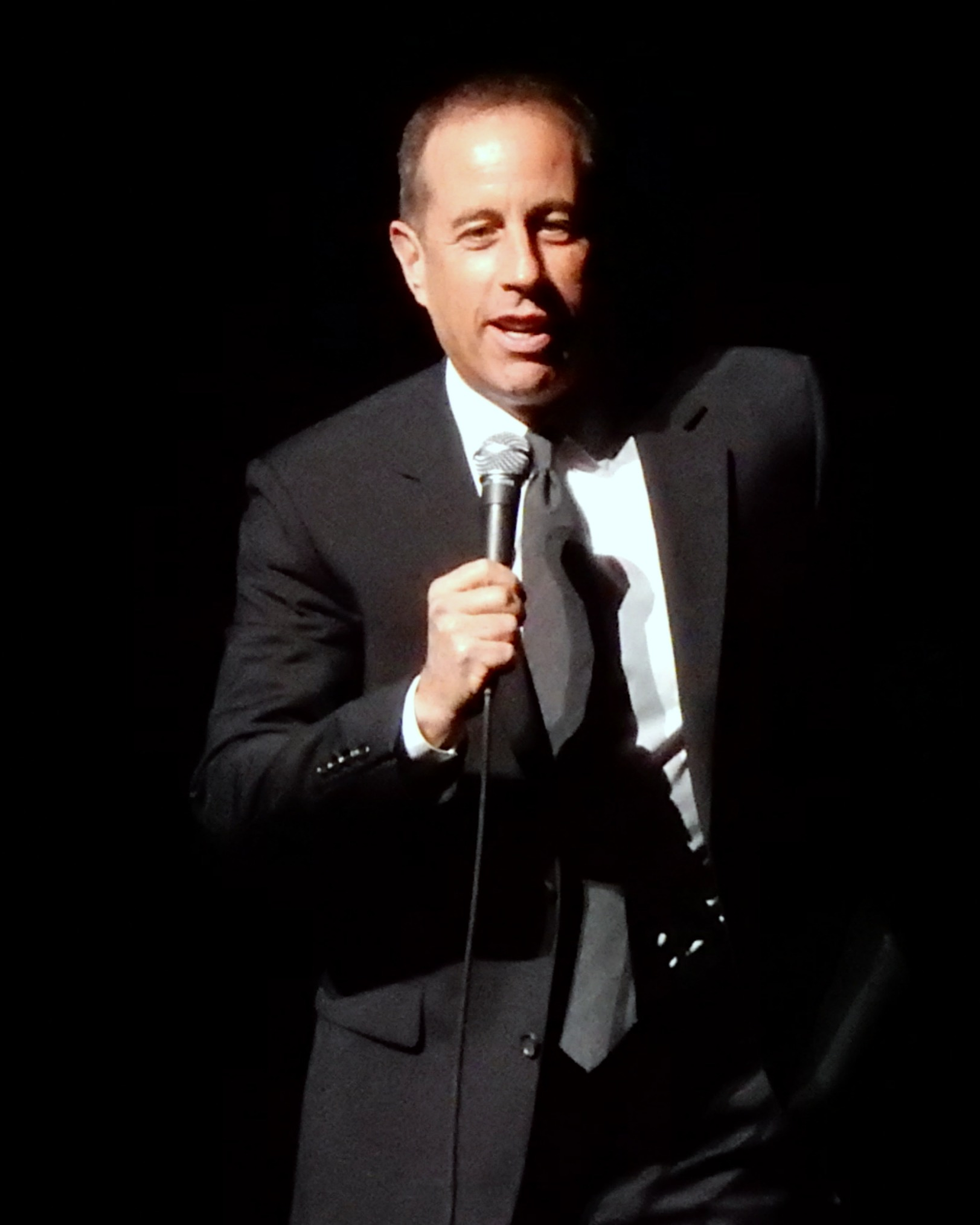 Jerry Seinfeld, 2 December 2016